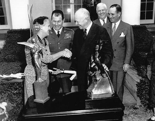 Jackie Cochran and Chuck Yeager being presented with the Harmon International Trophies by President Dwight D. Eisenhower. (Photo courtesy Air Force Flight Test Center History Office)